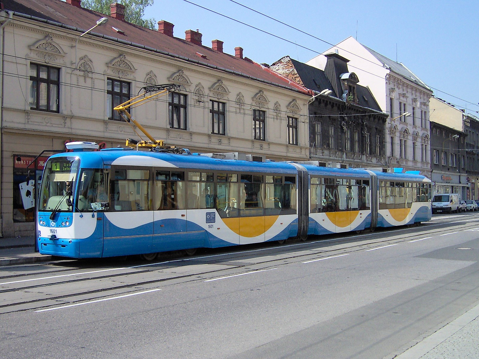 Vario LF3 tram in Ostrava